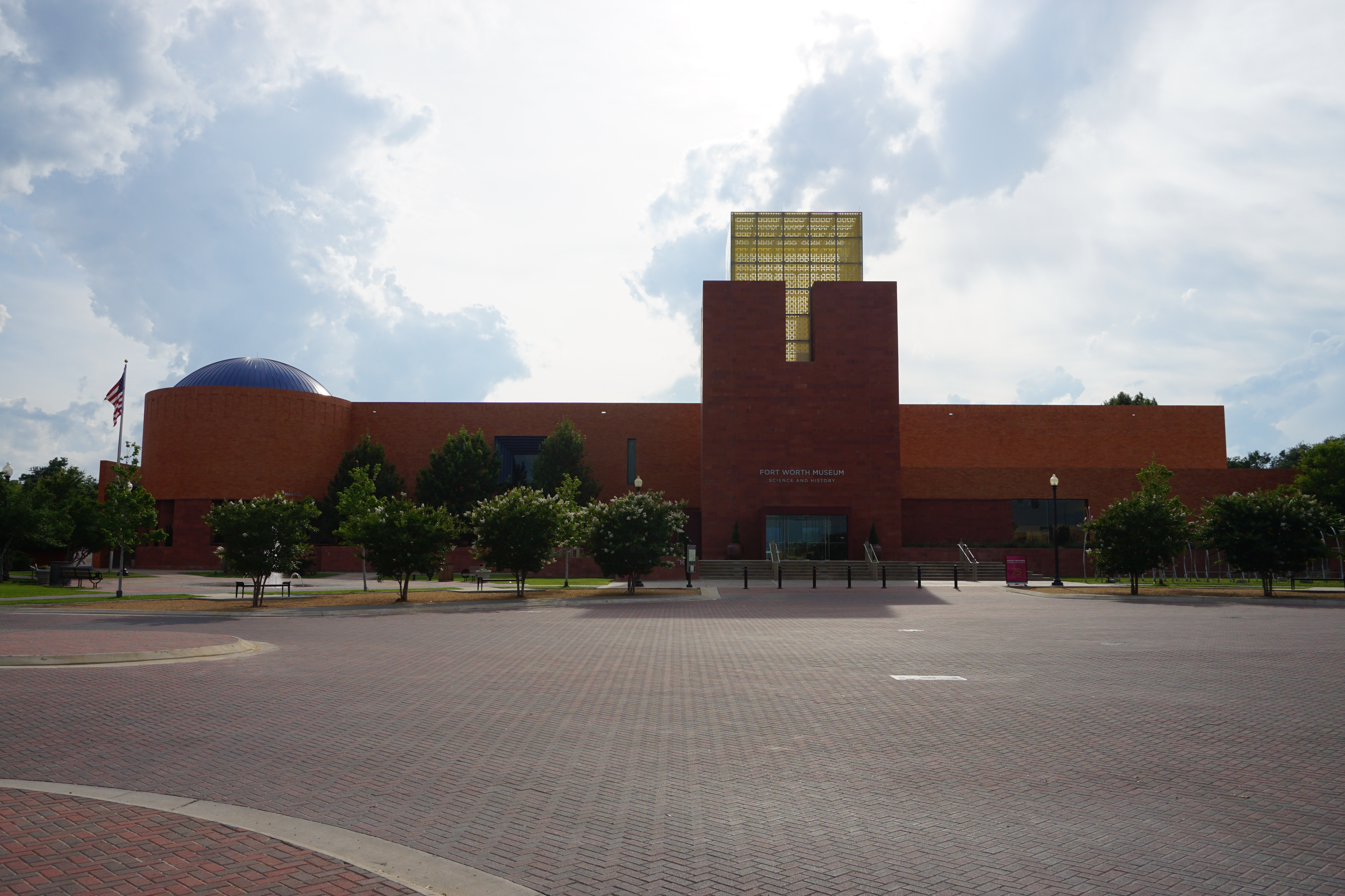 The Fort Worth Museum of Science and History in Fort Worth, Texas (United States).